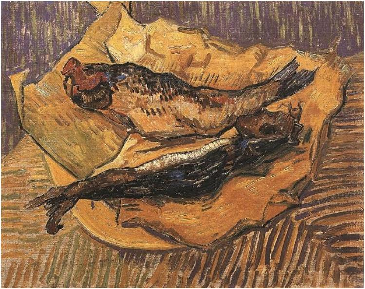 "Still Life: Bloaters on a Piece of Yellow Papers" Private collection Oil on Canvas, 33 x 41cm (F510)